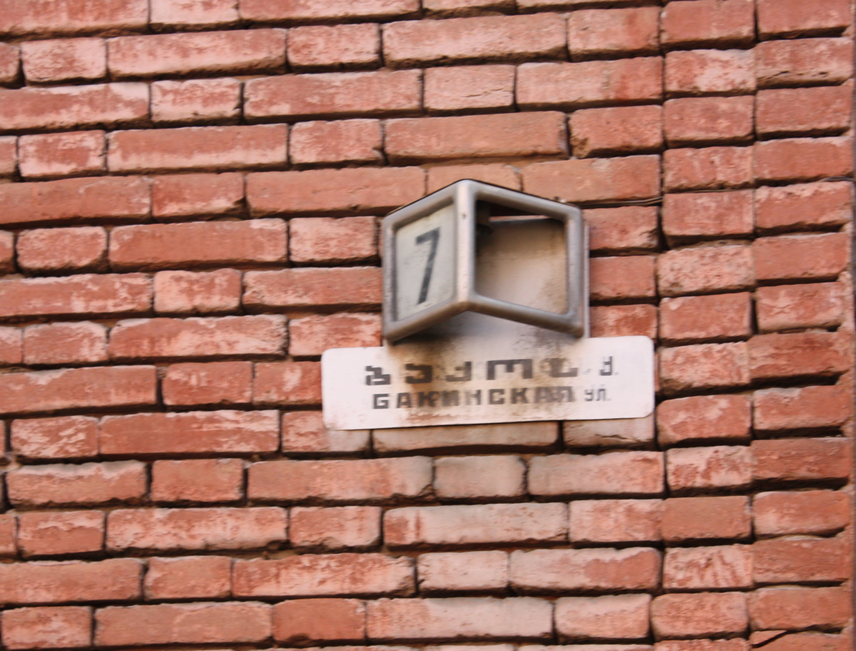 The Baku street in Tbilisi, Georgia.